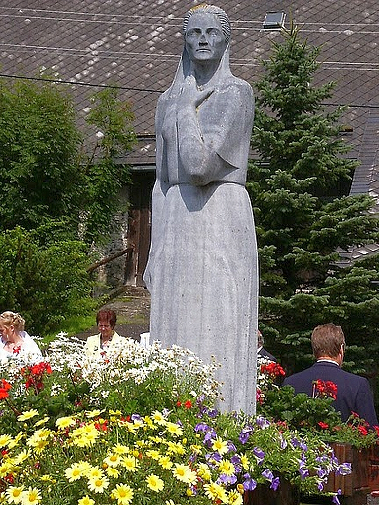 "MOURNING" by Franz Xaver Ölzant war memorial in the center Pusterwald.